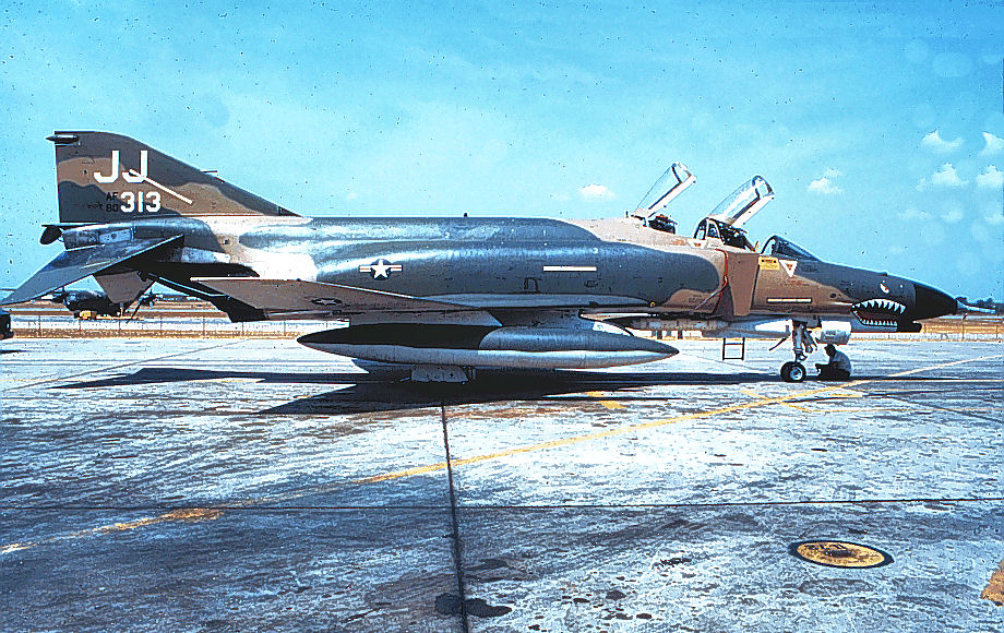 34th Tactical Fighter Squadron - McDonnell F-4E-32-MC Phantom - 68-0313